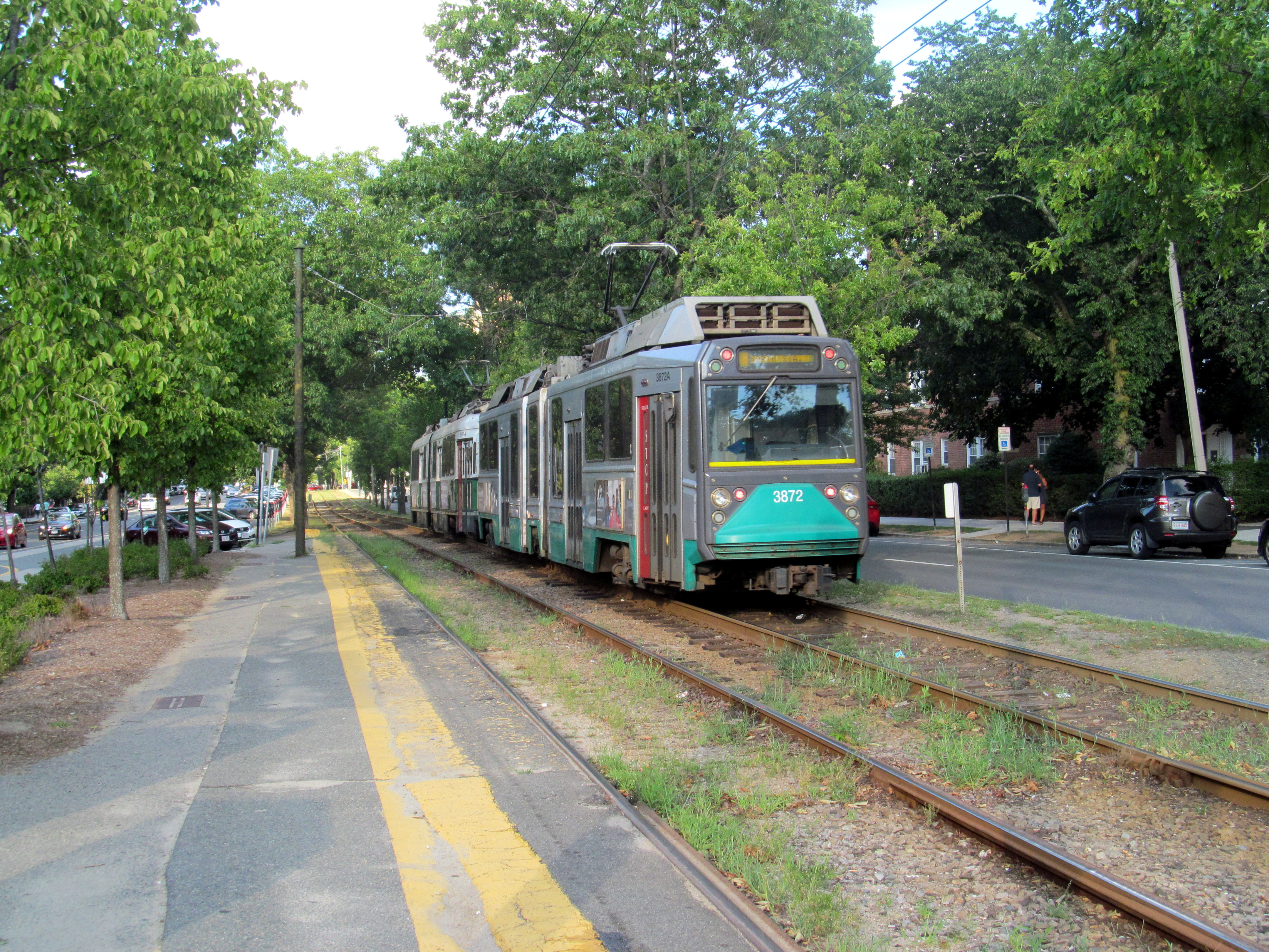 An inbound train passes the outbound platform at Kent Street station in August 2016